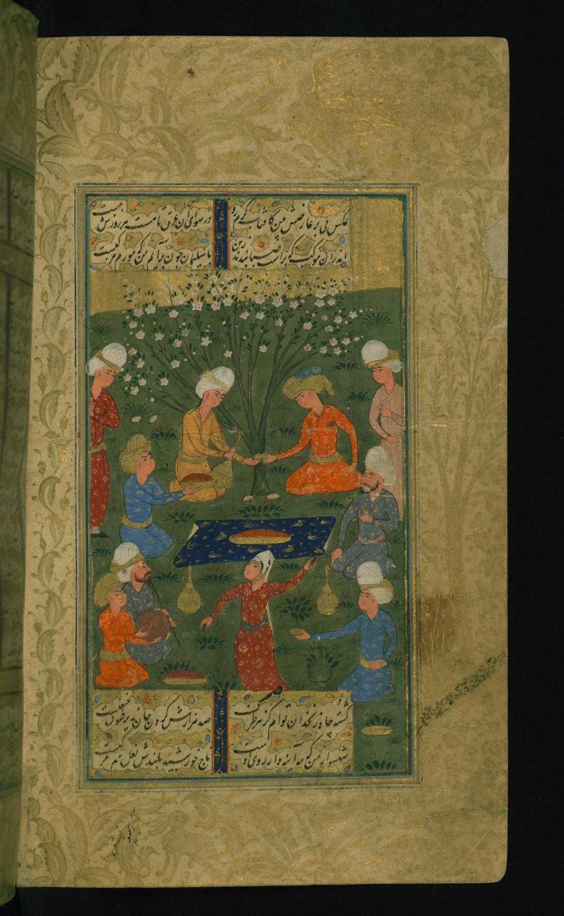 This folio from Walters manuscript W.638 depicts a festive party in a garden with dance, music, and wine.